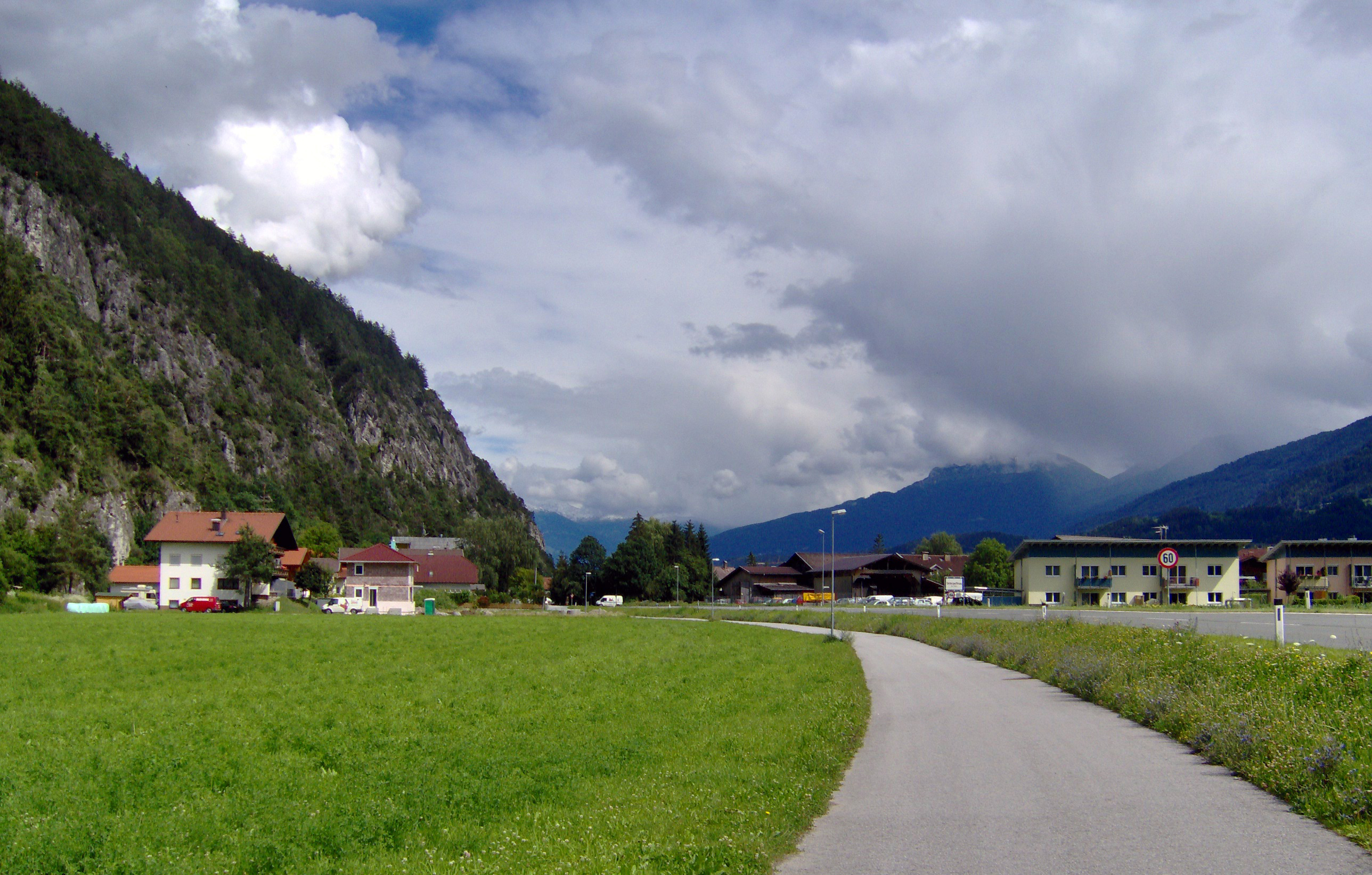 The village of Unterpettnau in the Austrian municipality of Pettnau, Tyrol.